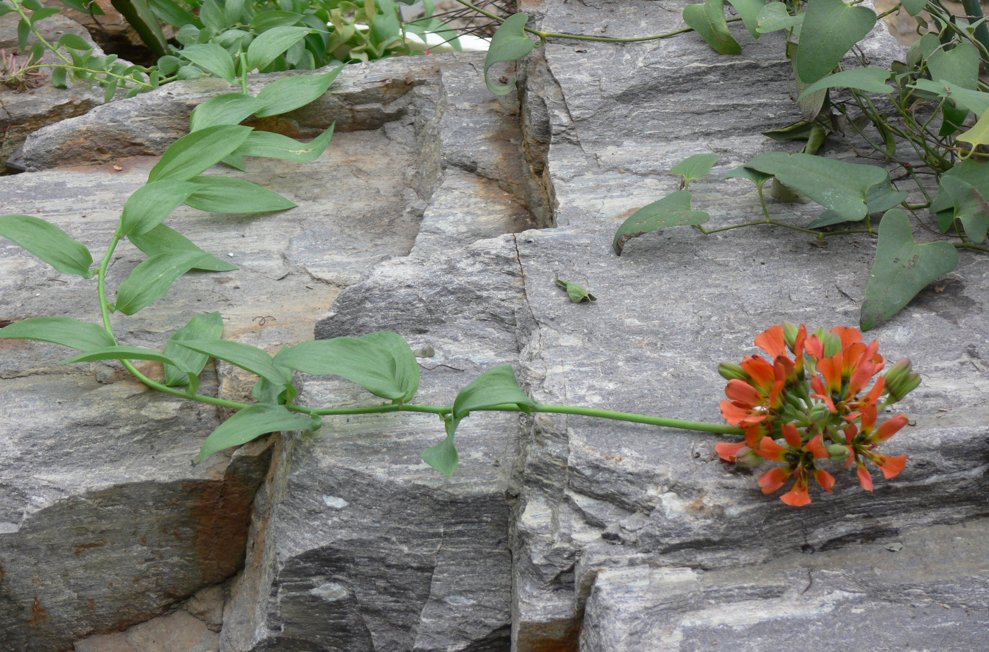 leontochir ovallei, whole plant